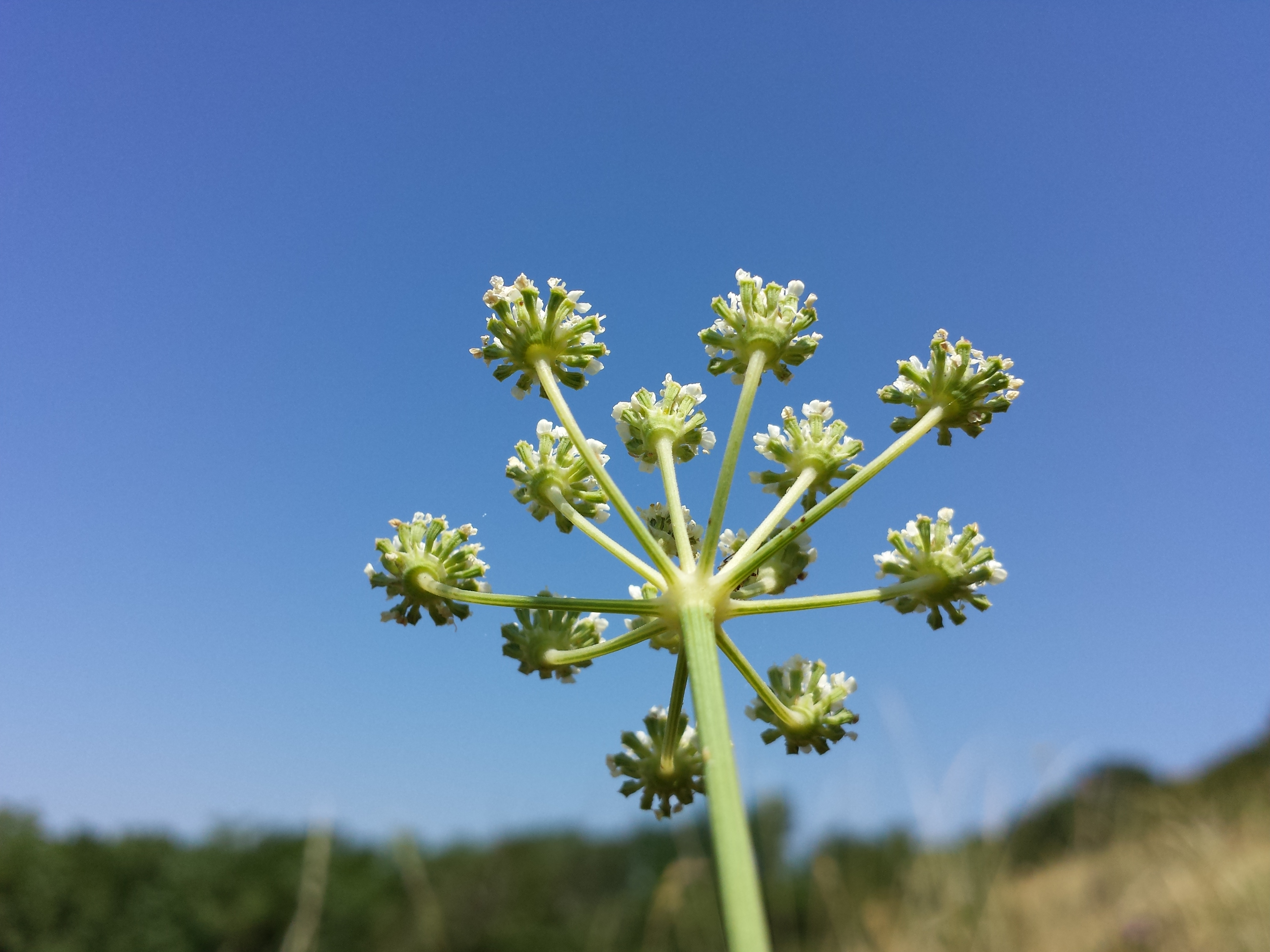 Inflorescence Taxonym: Seseli hippomarathrum ss Fischer et al. EfÖLS 2008 ISBN 978-3-85474-187-9 Location: nature reserve Mühlberg near Goggendorf, district Hollabrunn, Lower Austria - ca. 275 m a.s.l. Habitat: dry grassland on Loess